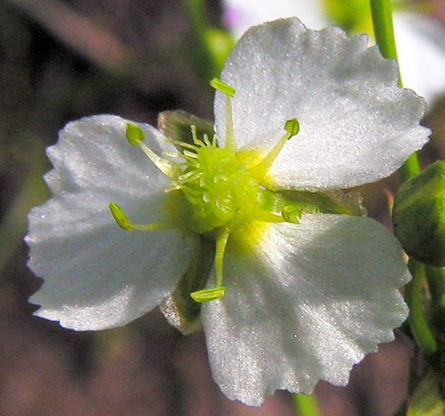 The flower of Alisma plantago-aquatica. Moscow region, Russia.